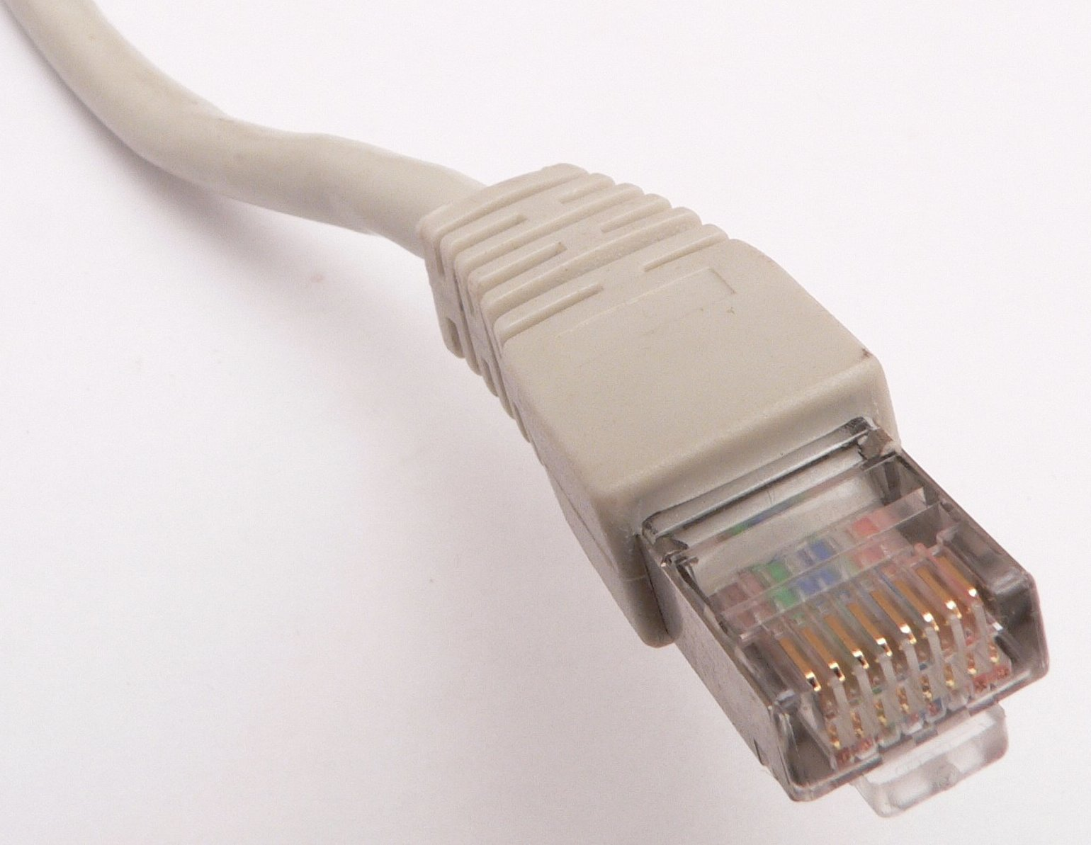 'RJ45' 8P8C connector and category-5 wire Copyright © 2007 David Monniaux